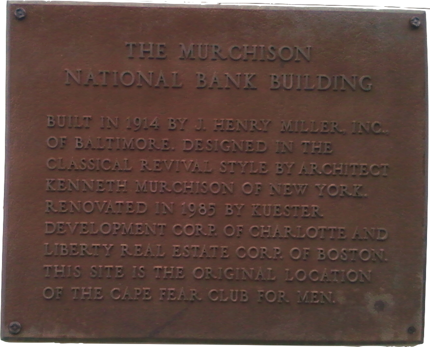 A Bronze Plaque on the Murchison Building that describes its origins, briefly.